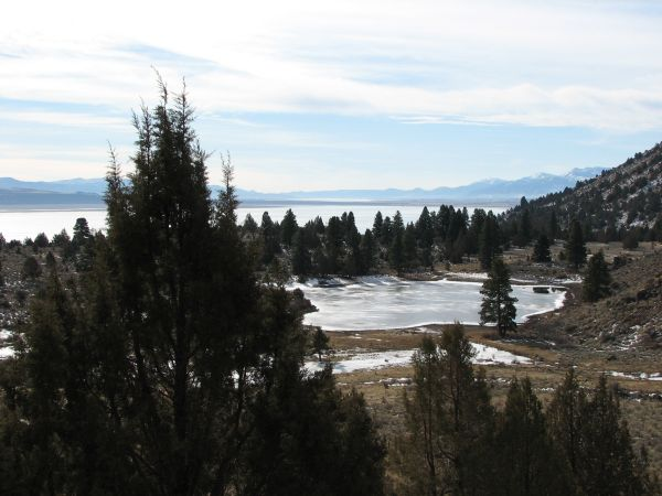 On Fandango Pass — overlooking a small pond and the Surprise Valley, in Northeastern California. A California Historical Landmark in Modoc County, and within a Bureau of Land Management area in California.